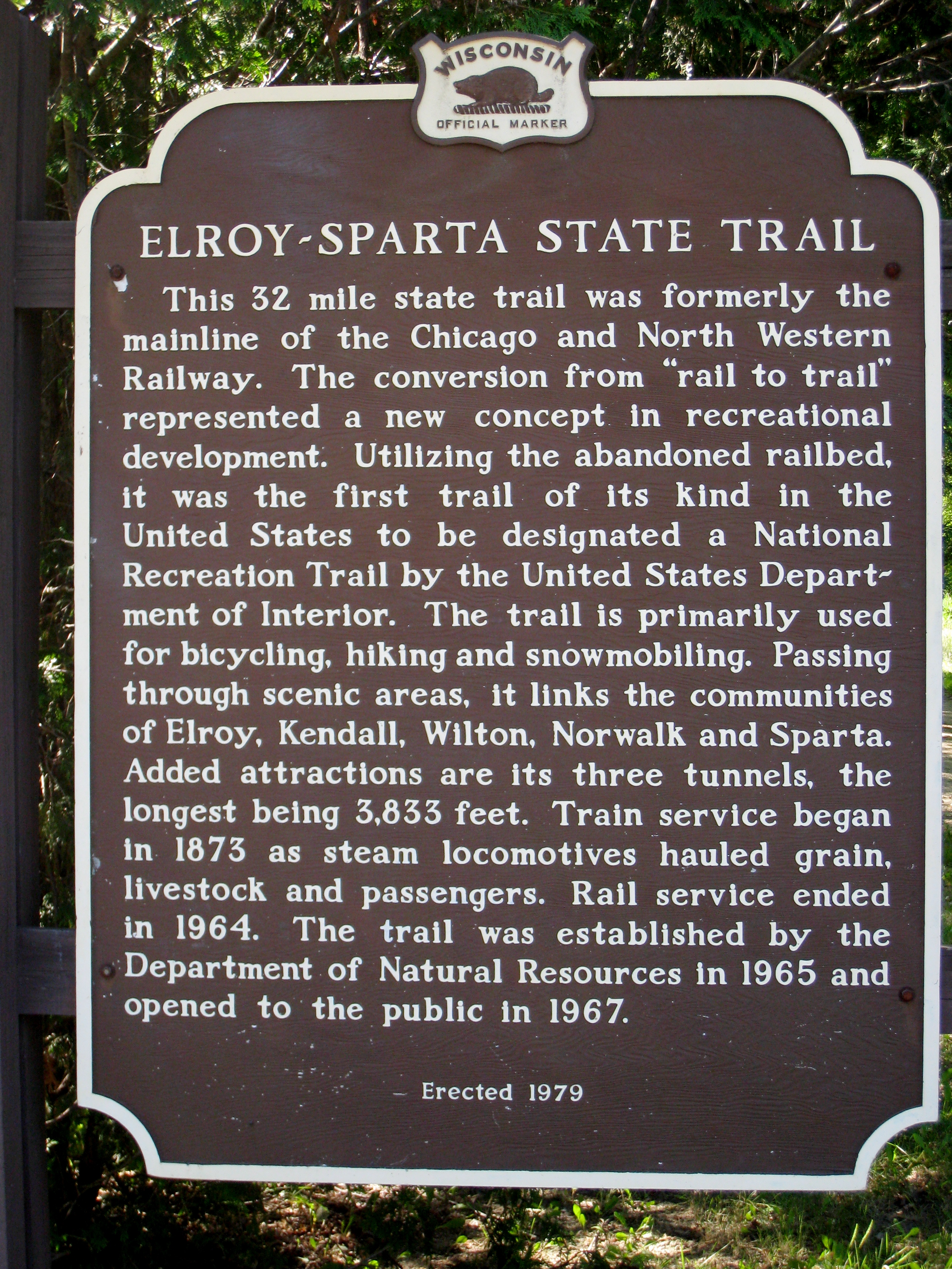 A sign describes the Elroy-Sparta State Trail.